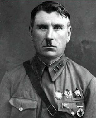 Soviet komkor Stepan Dimitrievič Akimov